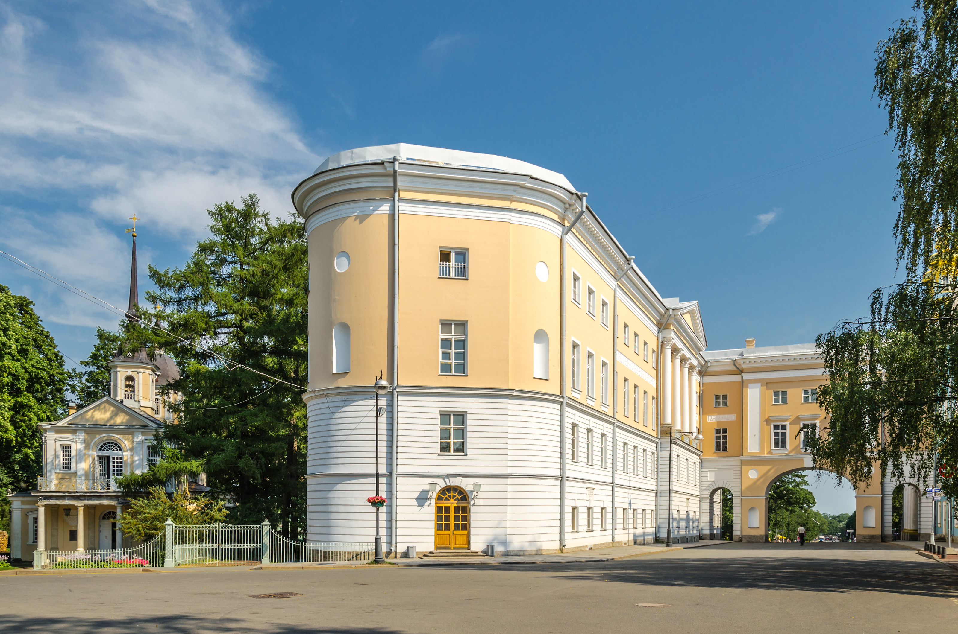 The Liceum building in Tsarskoe Selo, Saint Petersburg, Russia.